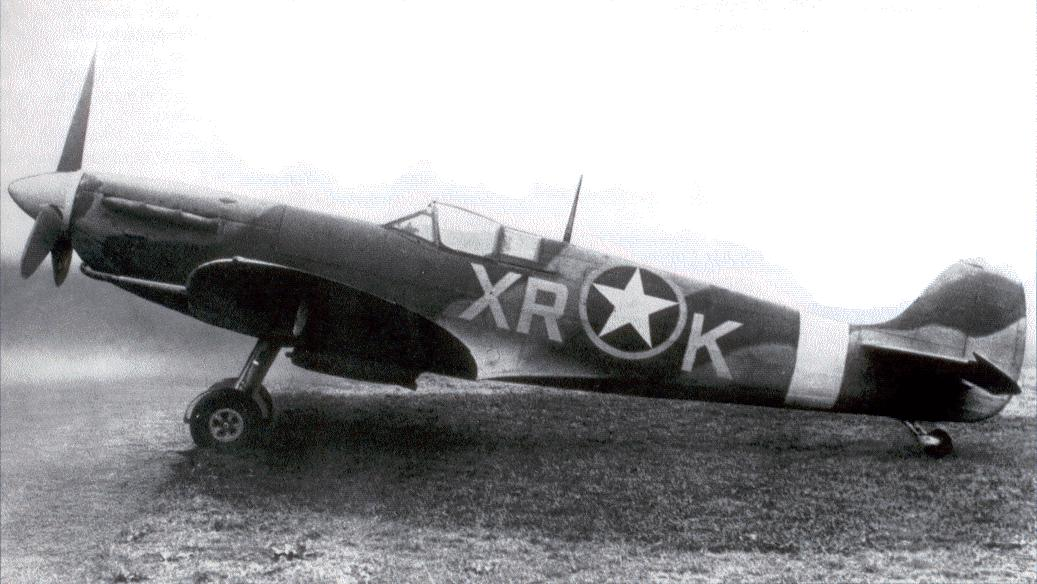 Photo of Spitfire from 4th Fighter Group in 1941. This is EN783, a Spitfire Mk Vb flown by Steve Pisanos of the 334th FS, who previously flew this aircraft under British colours with No 71 "Eagle" Squadron.